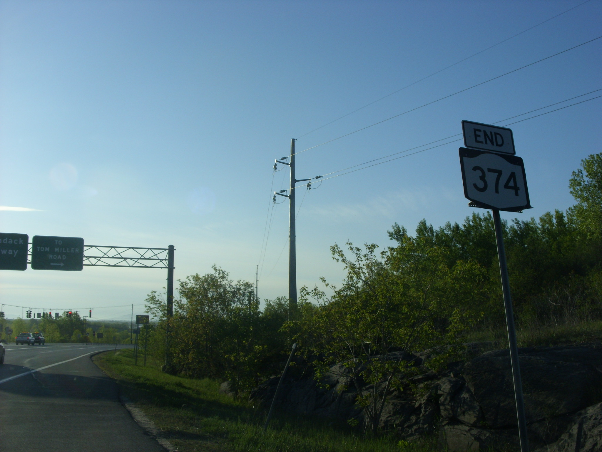 The signed eastern terminus of NY 374 in Plattsburgh.